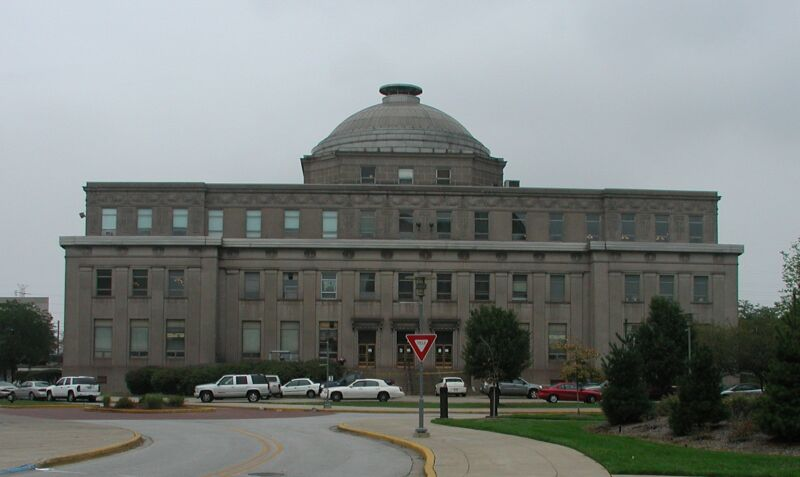 Lake County Superior Court, Gary, Indiana